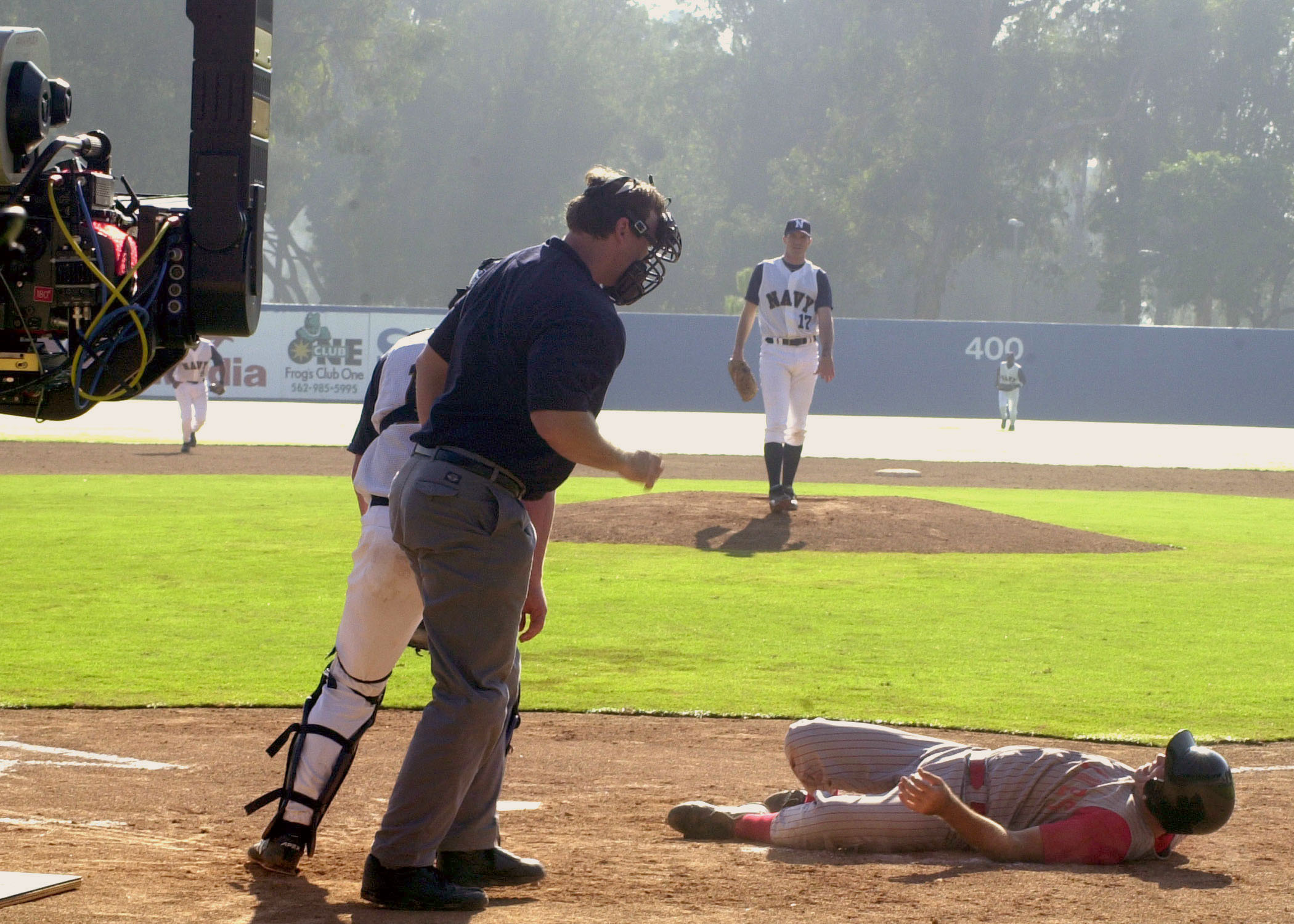 Long Beach, Calif. (Oct. 22, 2003) -- Barry Zito guest starred in an episode of the CBS television series JAG, as a Navy pitcher that beans a Marine batter in the head, walks toward the fallen batter. Sailors and Marines from the Navy and Marine Corps baseball teams recently donned their baseball uniforms to play a part in the weekly drama, which is seen by more than two million viewers on Friday nights. The episode is scheduled to air in a few weeks. U.S. Navy photo by Photographer’s Mate 2nd CLass Daniel Jones. (RELEASED)